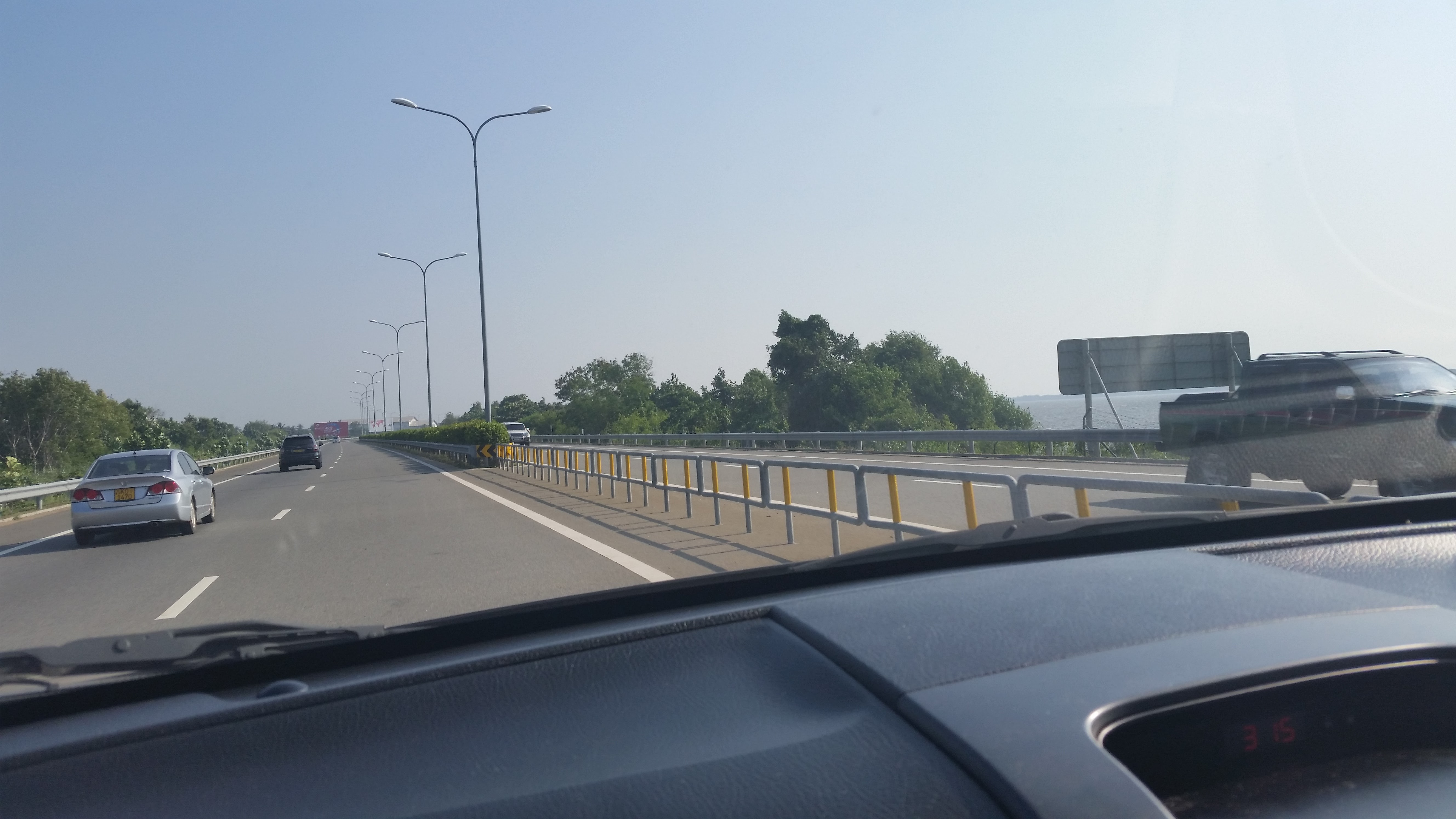 Typical dual carriageway E class road